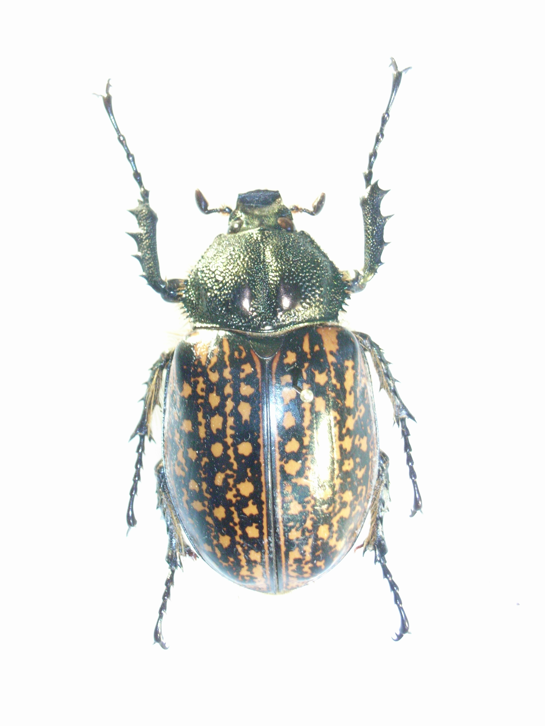 Cheirotonus macleayi Female Ex coll Felix Stumpe